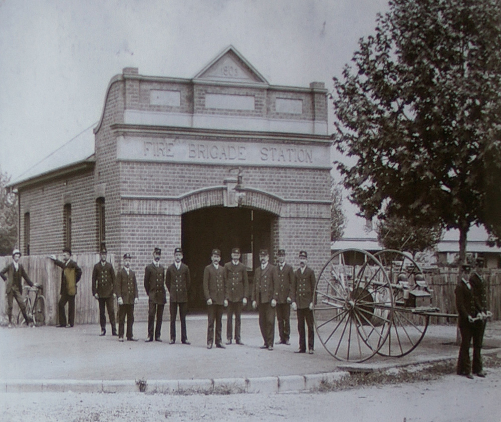 Wagga Wagga Fire Station located on Morrow Street in 1912. Sunflower House it now located in the former fire station.